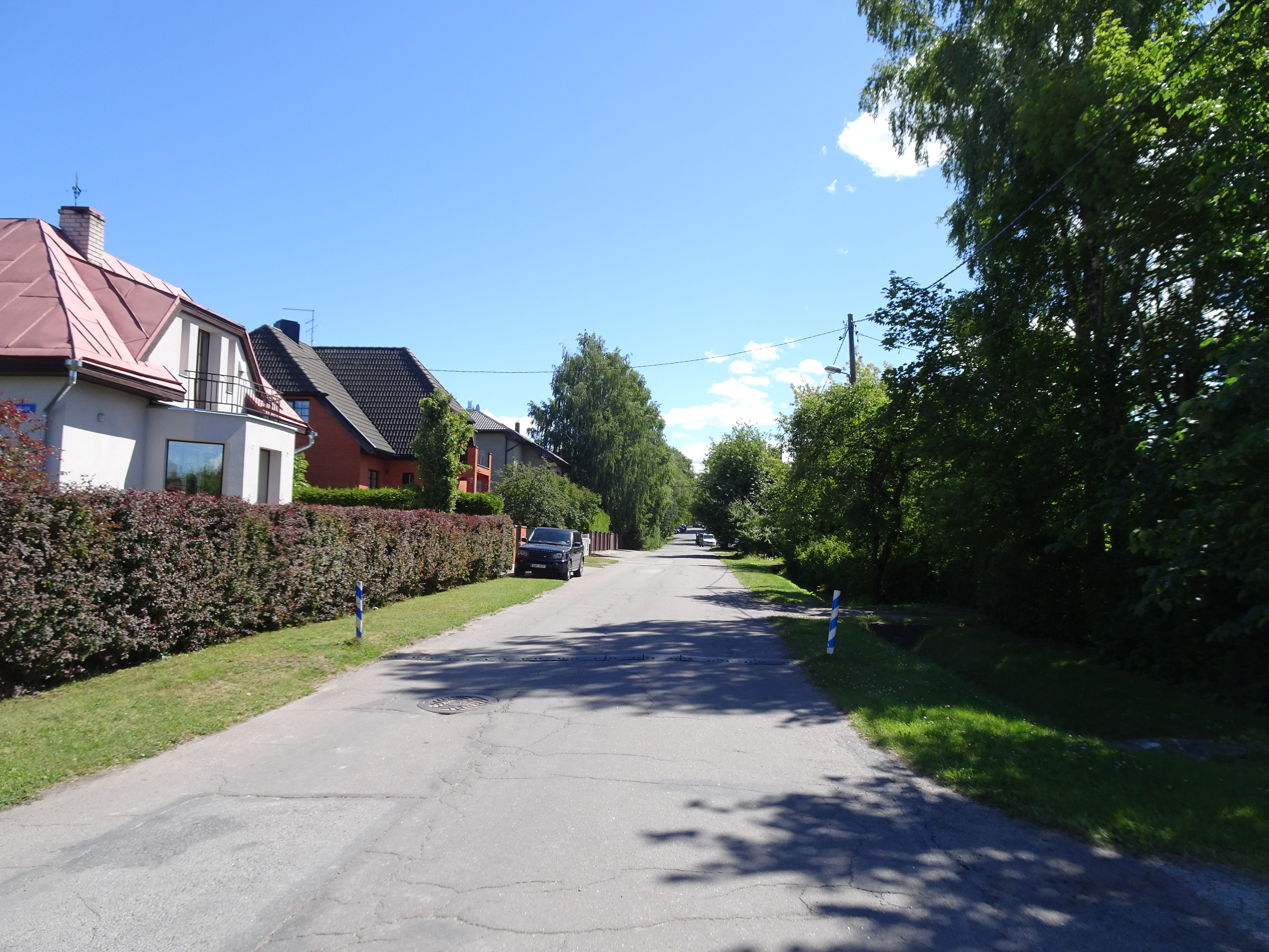 Kajaka Street in Tallinn, Estonia